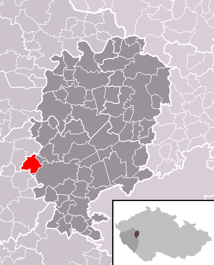 Location of Ejpovice municipality within Rokycany District and within identical administrative area of Rokycany as a Municipality with Extended Competence.